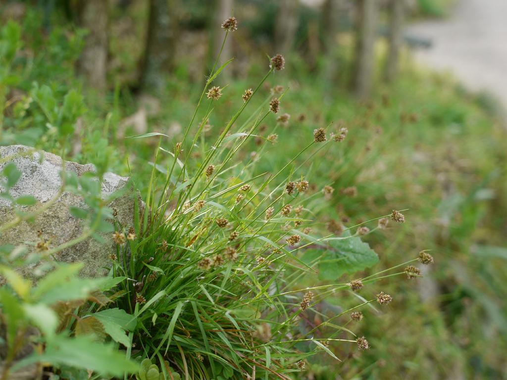 Luzula capitata(Juncaceae)